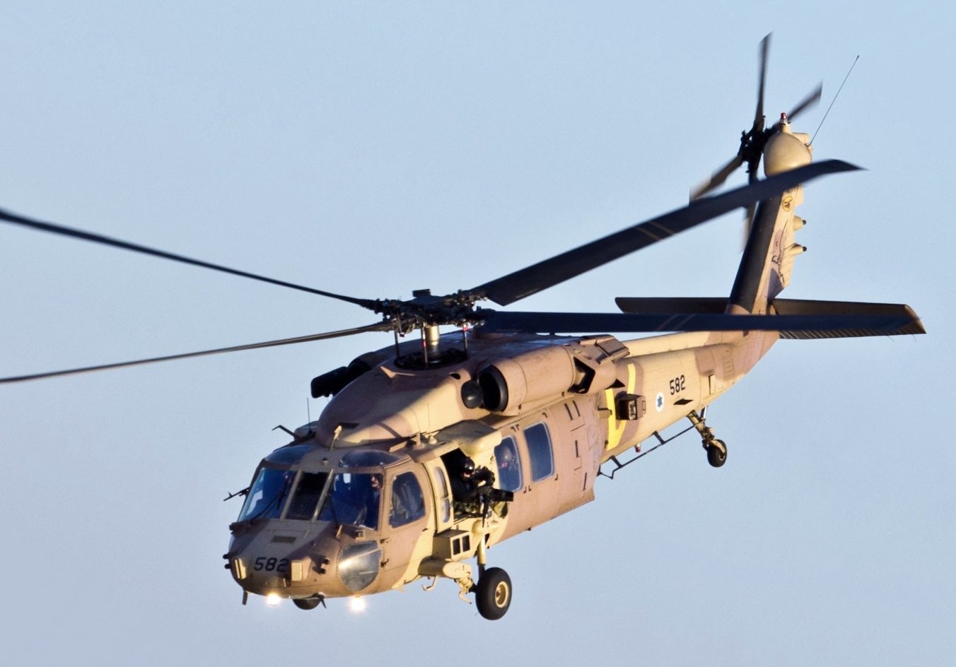 Israeli Air Force Squadron 123 UH-60 Yanshuf